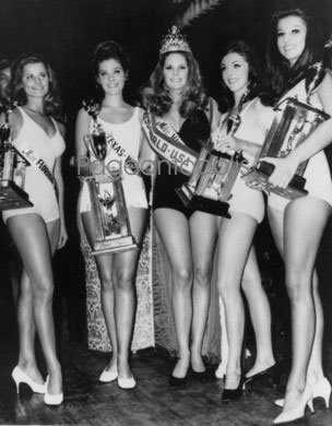 These are the top five finalists of the Miss World USA Contest. Paulette is to the far right.